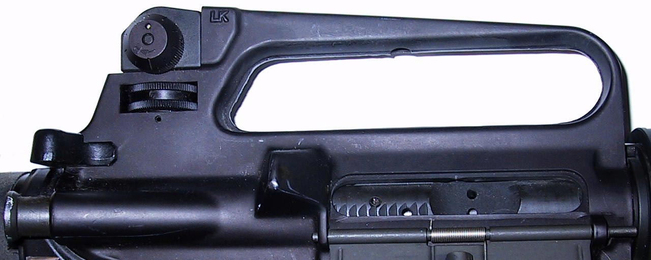 Mike Chapman